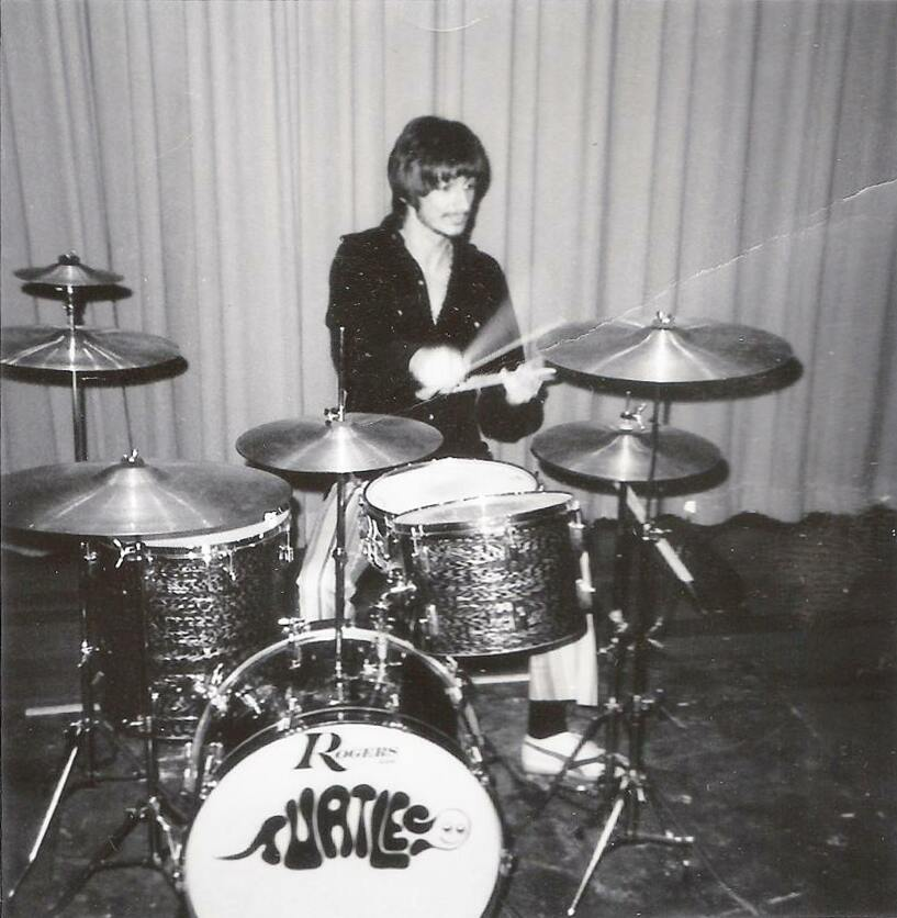 Johny Barbata practicing on his drums before a show with the Turtles